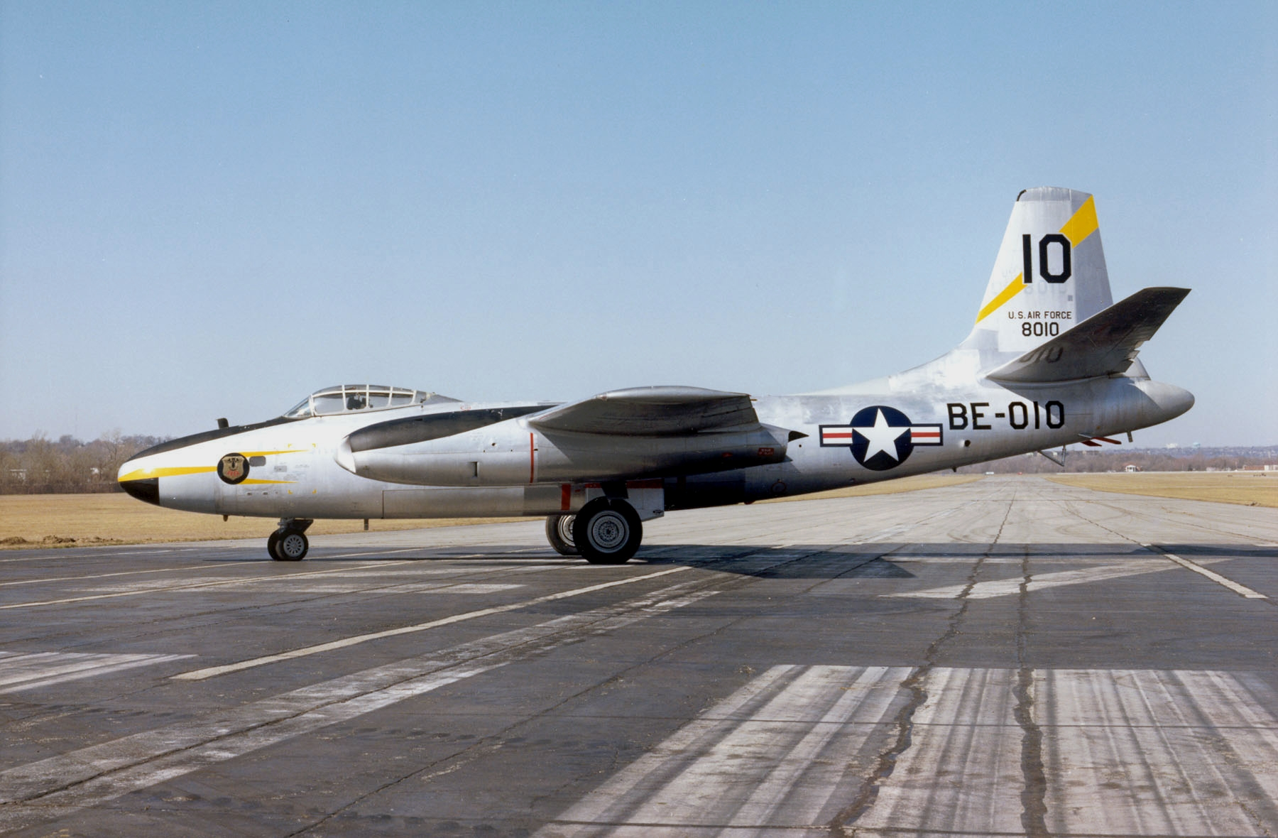 A U.S. Air Force North American B-45C Tornado (s/n 48-010) at the National Museum of the U.S. Air Force at Dayton, Ohio (USA).